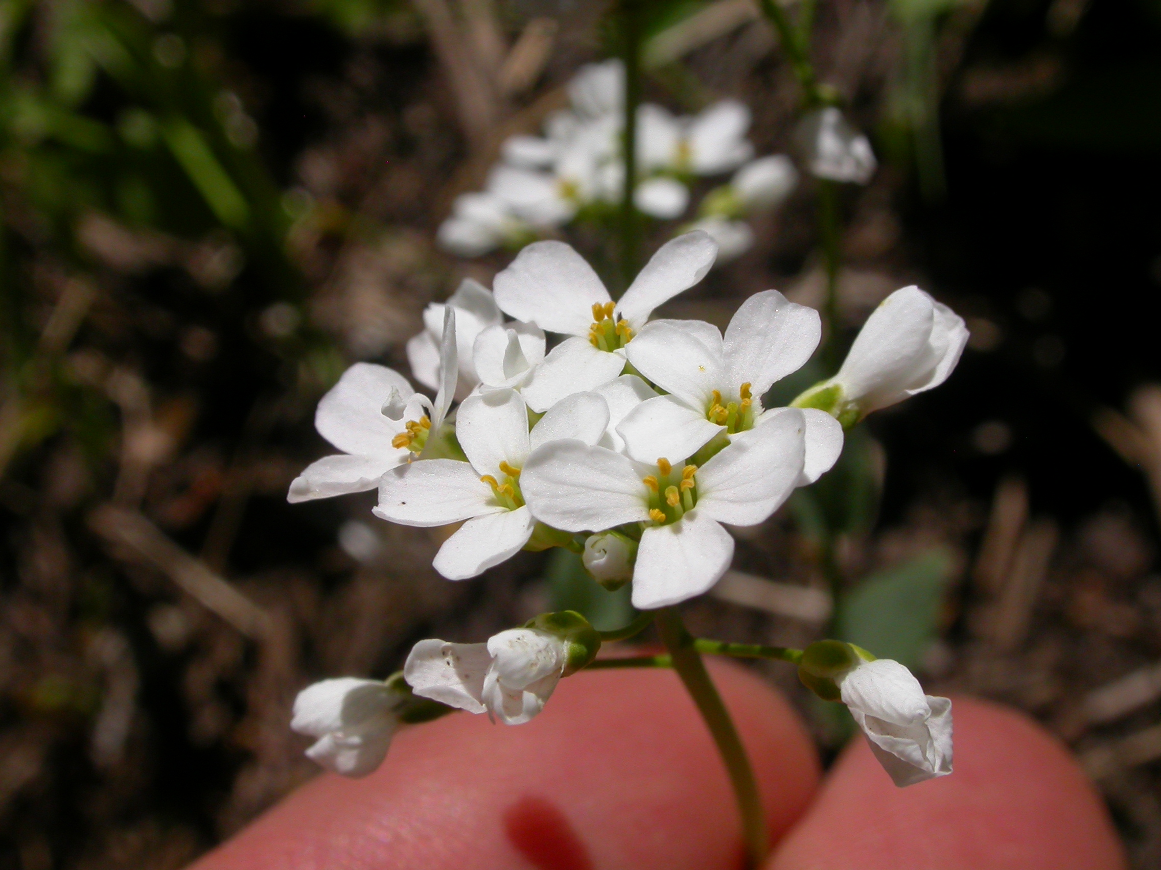 The profuse white flowers render this species conspicuous in the shady forest understory or forest edge.